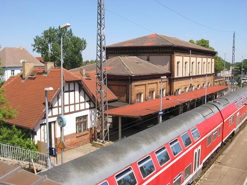 Tarin station in Belzig. Belzig is the central town of the district Potsdam-Mittelmark in the state Brandenburg of Germany. Belzig appertains to the natural preserve Naturpark Hoher Fläming.